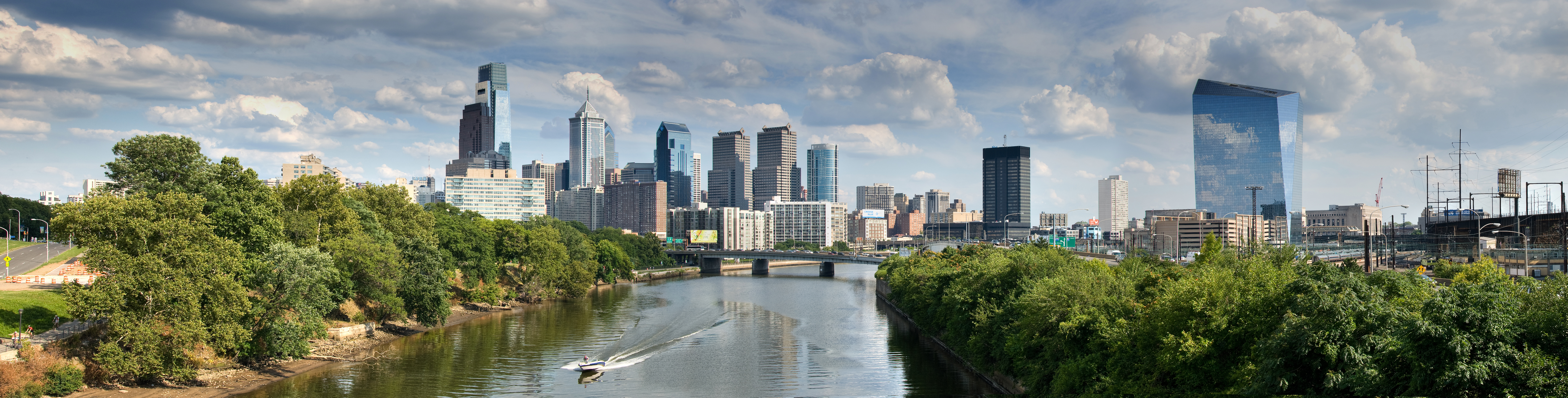 A straightened version of the panorama File:Phila skyline pan.jpg